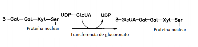 Glucoronate transfers